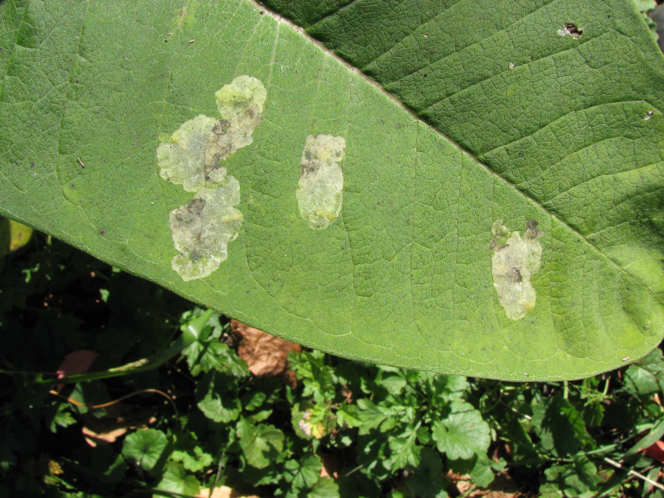 Mines on common milkweed made by Liriomyza asclepiadis, a leaf miner fly. Horsham trail, Montgomery County, Pennsylvania, USA.